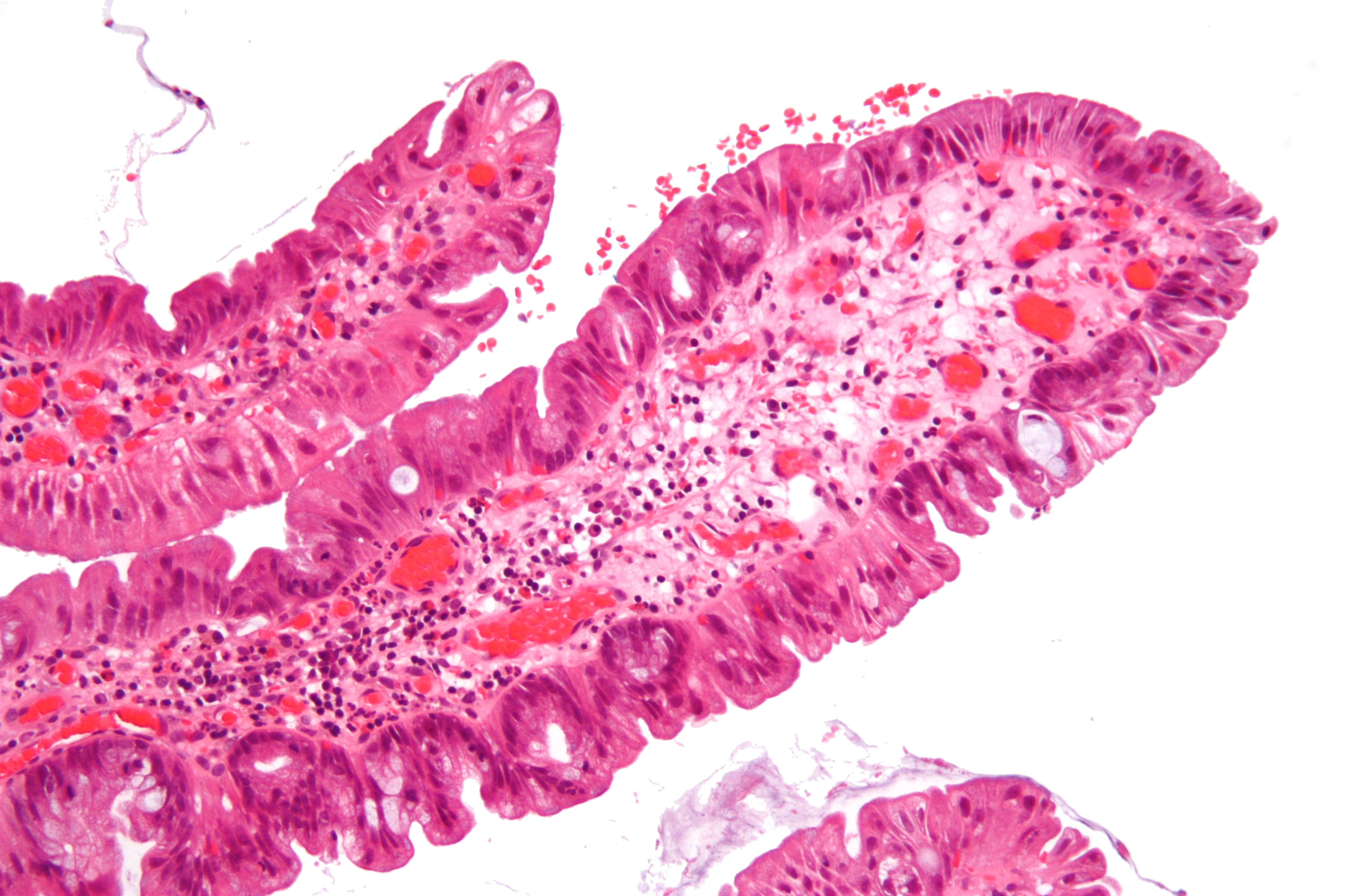 Intermediate magnification micrograph of a traditional serrated adenoma, commonly abbreviated TSA, a pre-malignant lesion of the colon, i.e. a pre-cursor of colorectal cancer. H&E stain. Colonic biopsy. Features: Classically: rectum/left colon. Morphology: polypoid. Cytologic atypia: cigar-shaped nuclei, hyperchromasia, nuclear crowding. Location of worst atypia: basal. Luminal serration: present. Cytoplasm: eosinophilic. Related images Low mag. High mag. Very high mag.